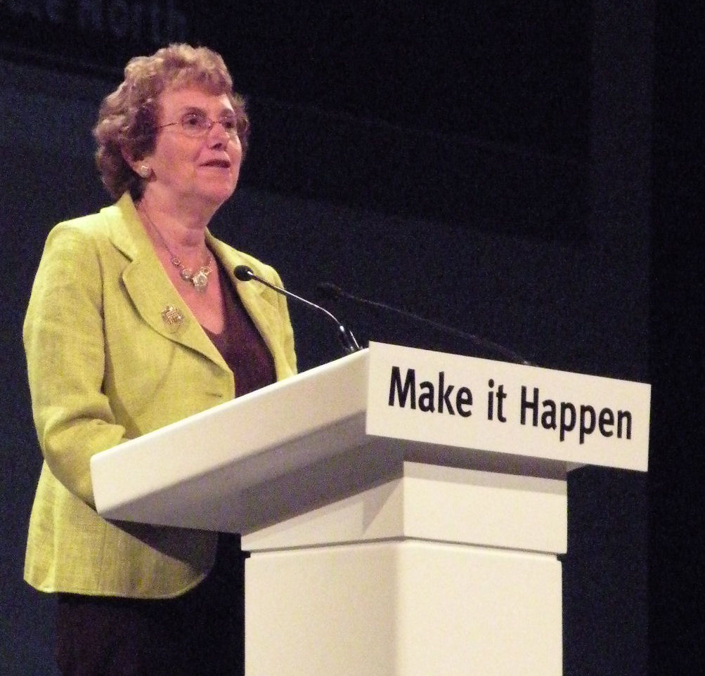 Annette Brooke MP addressing a Liberal Democrat conference in the Bournemouth International Centre